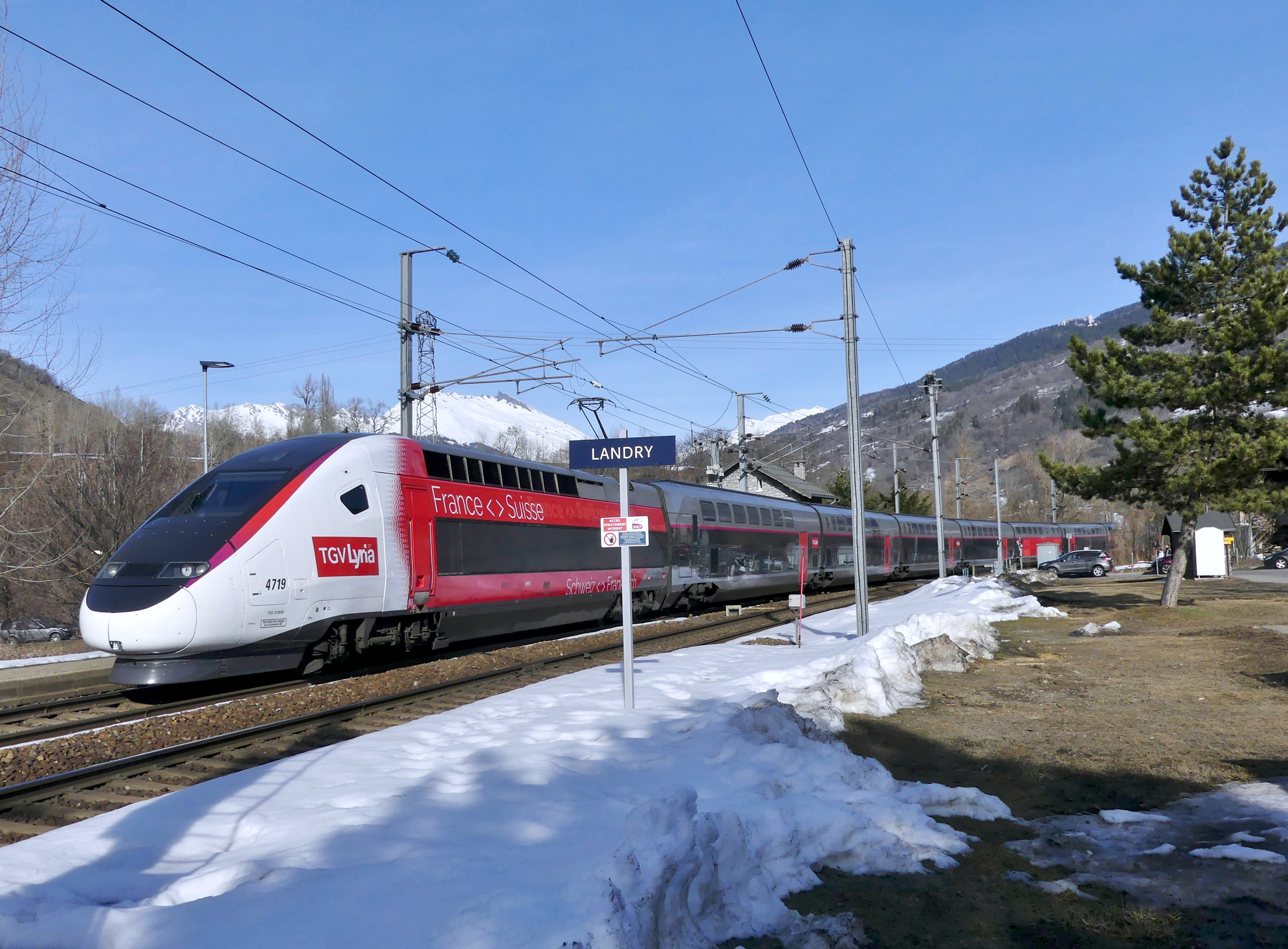 Sight, in winter, of a French TGV on journey n° 6435 from Paris to Bourg-Saint-Maurice in the Alps and leaving Landry, last stop before the terminus, in Savoie, France.